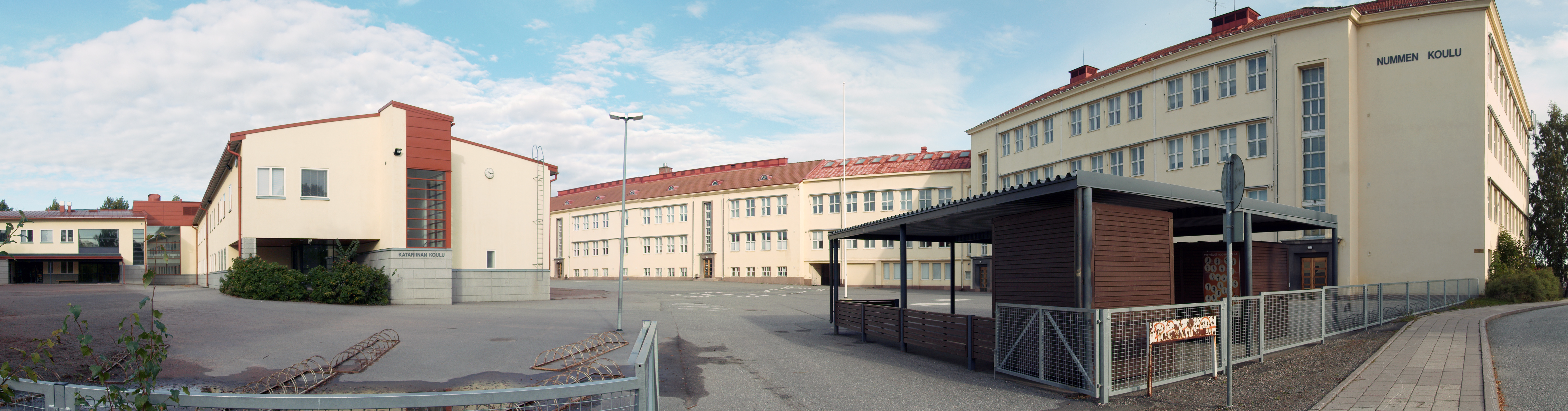 Nummenpakka school in Turku, Finland.